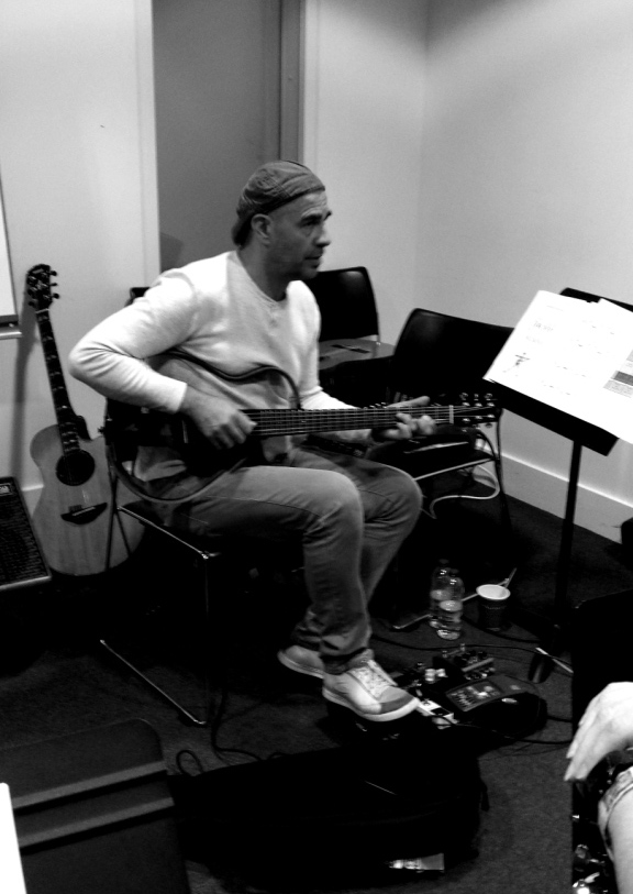 Guitar player Antonio Forcione during the IGF London Guitar Summit 2015 Contemporary Acoustic course at Kings Place